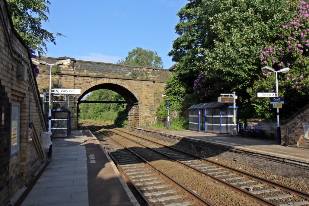 Wigan-bound platform, Orrell railway station